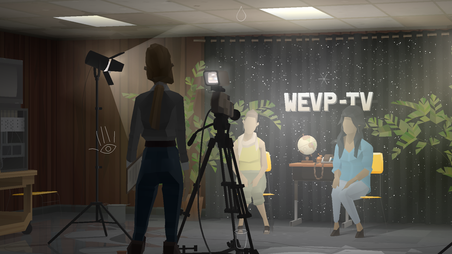 Screenshot of the game Kentucky Route Zero.